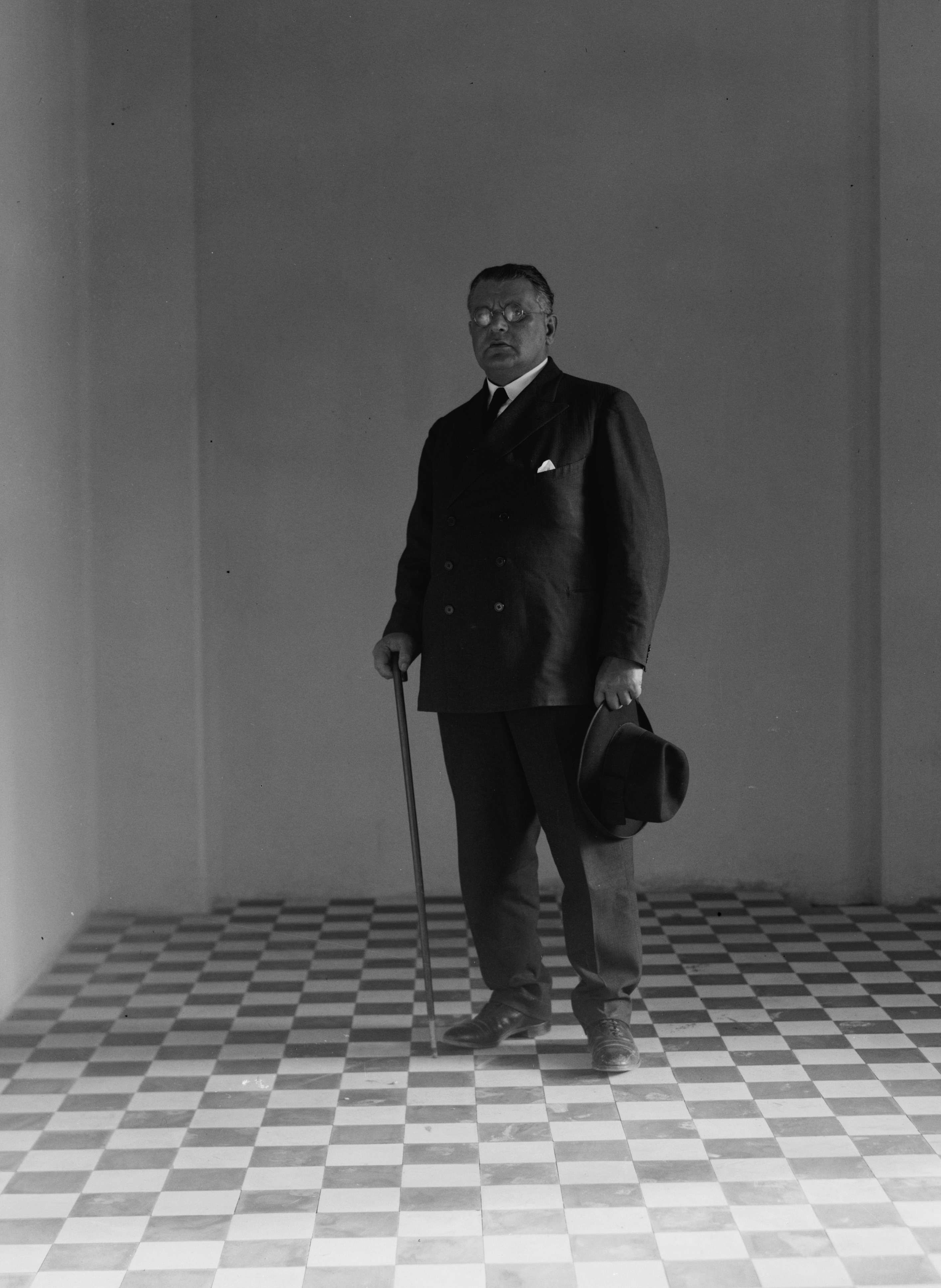 Pinhas Rutenberg was founder of the Palestine Electric Company. (Source: researcher N. Lavsky, 2007)